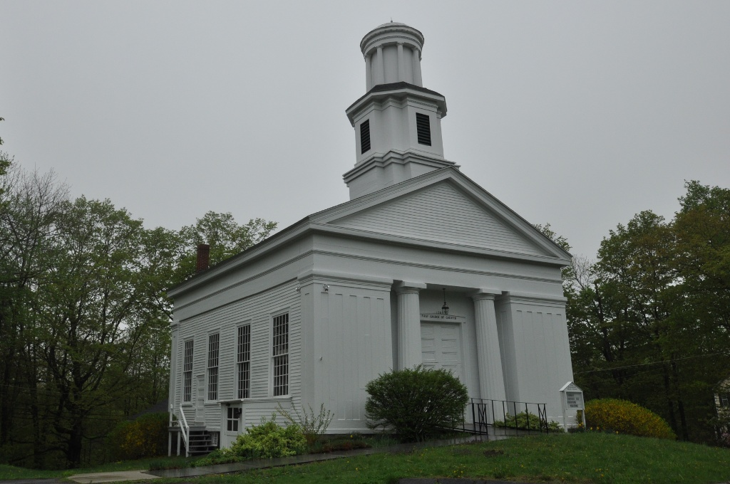 The Congregational Church in Chester Center, Massachusetts; part of the Chester Center Historic District.